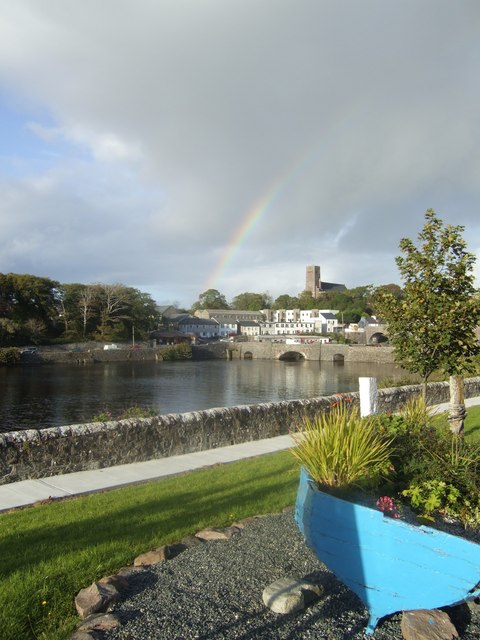 Newport Co. Mayo View across the harbour of the town basking in late afternoon sunshine after a sharp shower.